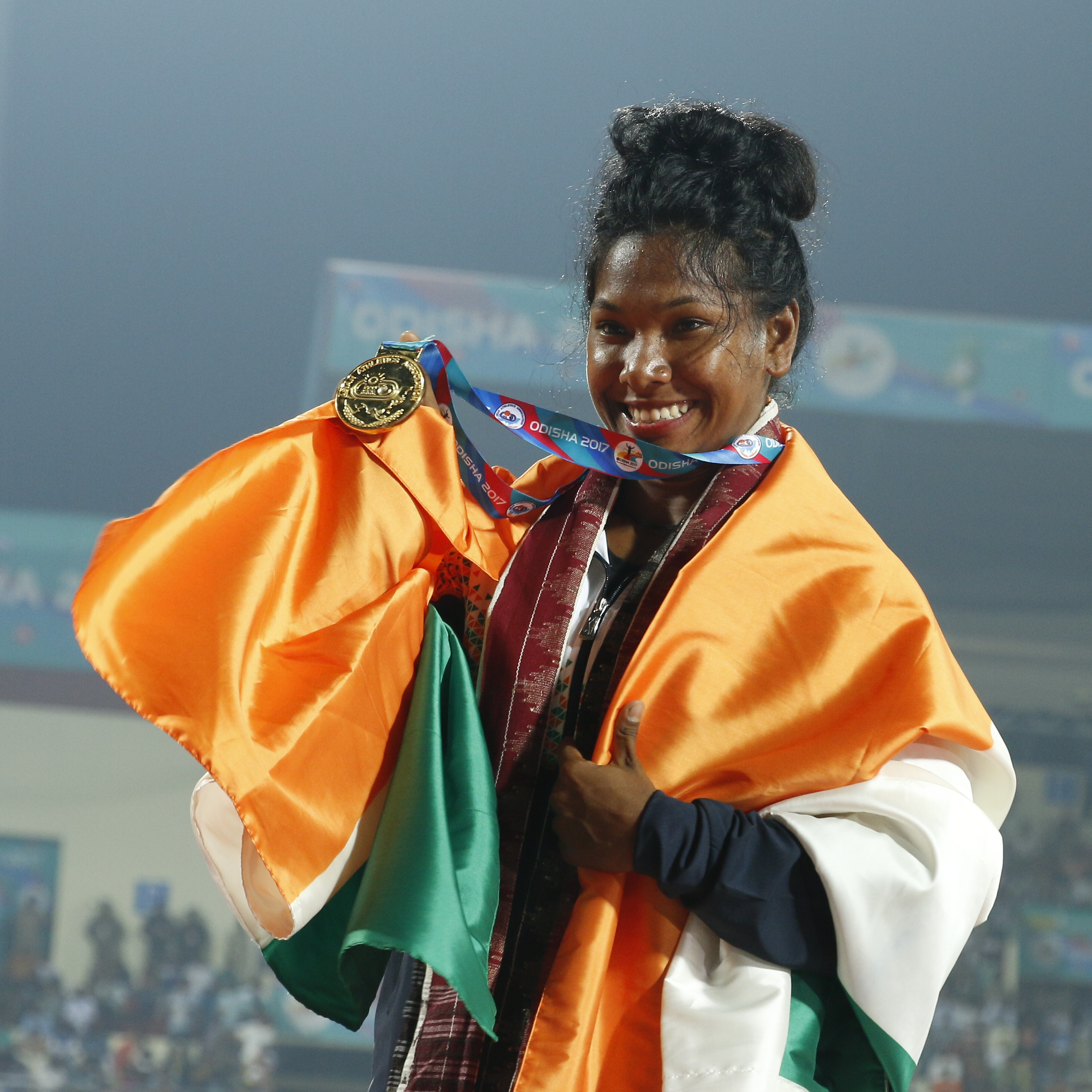 Athletes during 22nd Asian Athletics Championships in Bhubaneswar.